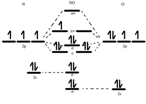 NO mo diagram